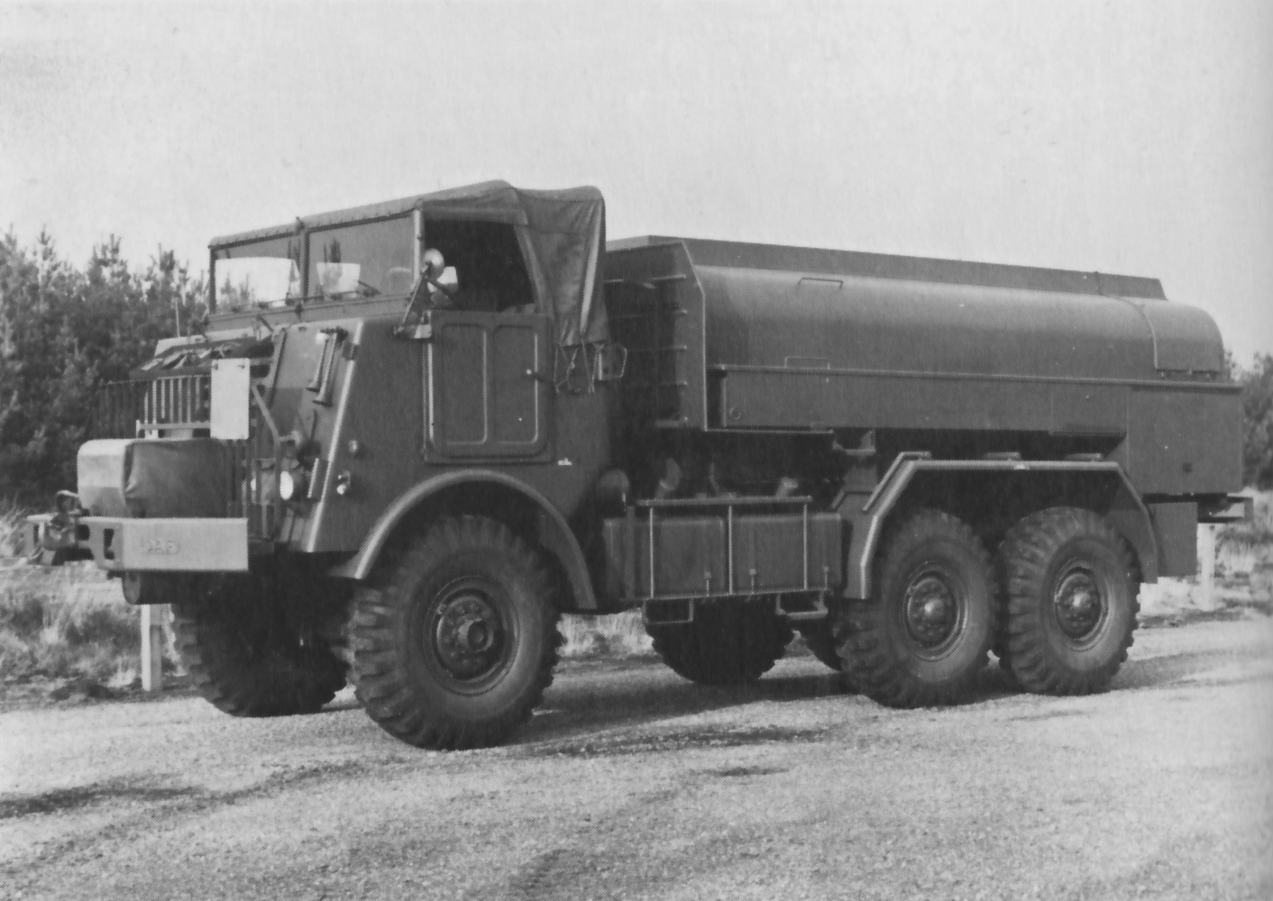 DAF YA 616 6 ton Militairy Fuel Truck. Picture taken at Legerplaats Stroe The Netherlands.